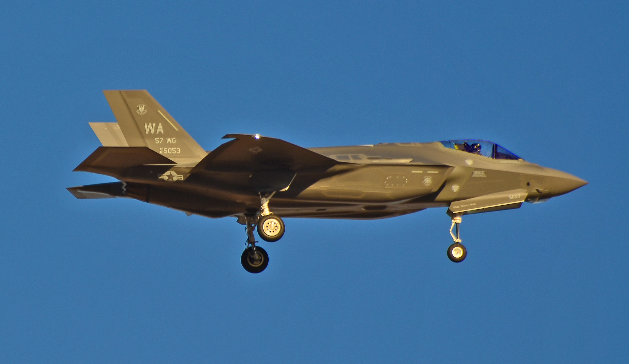 The 57th Wing (57 WG) is an operational unit of the United States Air Force Warfare Center, stationed at Nellis Air Force Base, Nevada. RED FLAG 15-4 August 17 to 28 Las Vegas - Nellis AFB (LSV / KLSV) TDelCoro August 24, 2015